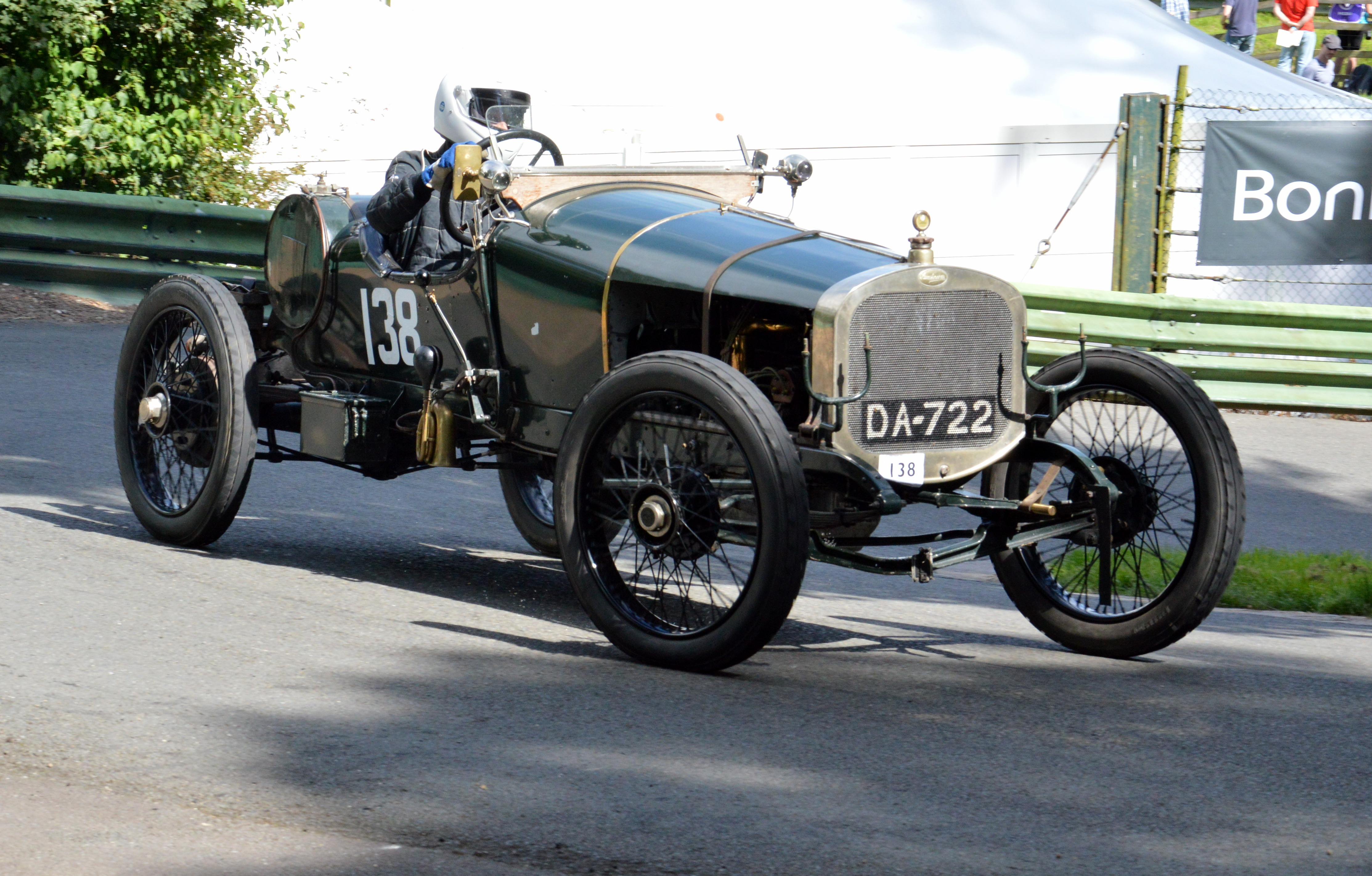 Duncan Cartwright driving JM Cartwright's 2995cc 1913 Sunbeam 12/16 Sports on a timed run at the VSCC hill climb at Prescott